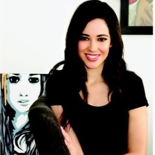 Edy Ganem sits comfortably in her Los Angeles home.